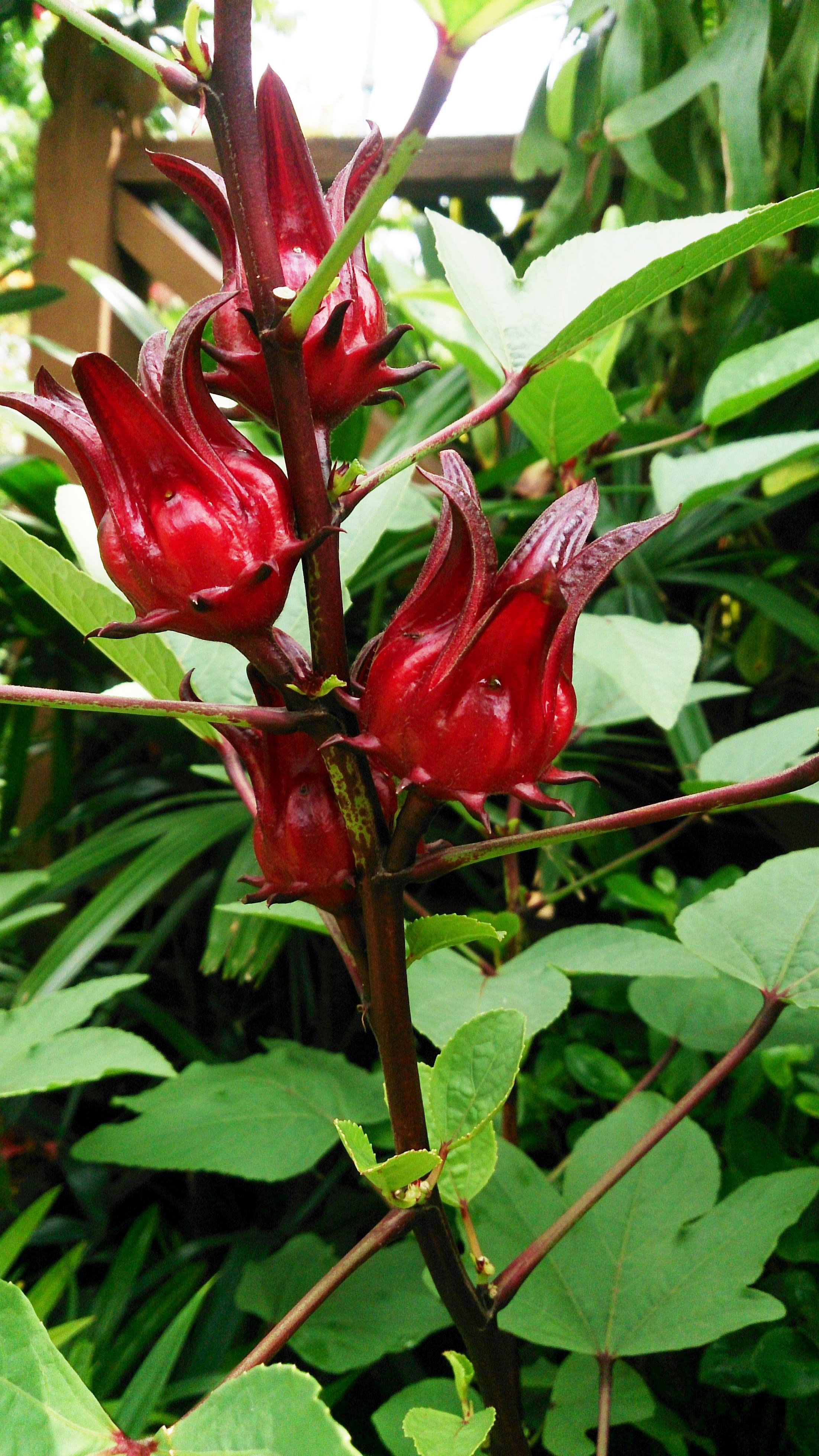 Hibiscus sabdariffa. Common names: Roselle. 玫瑰茄. 洛神花. 洛神葵 (Chinese).